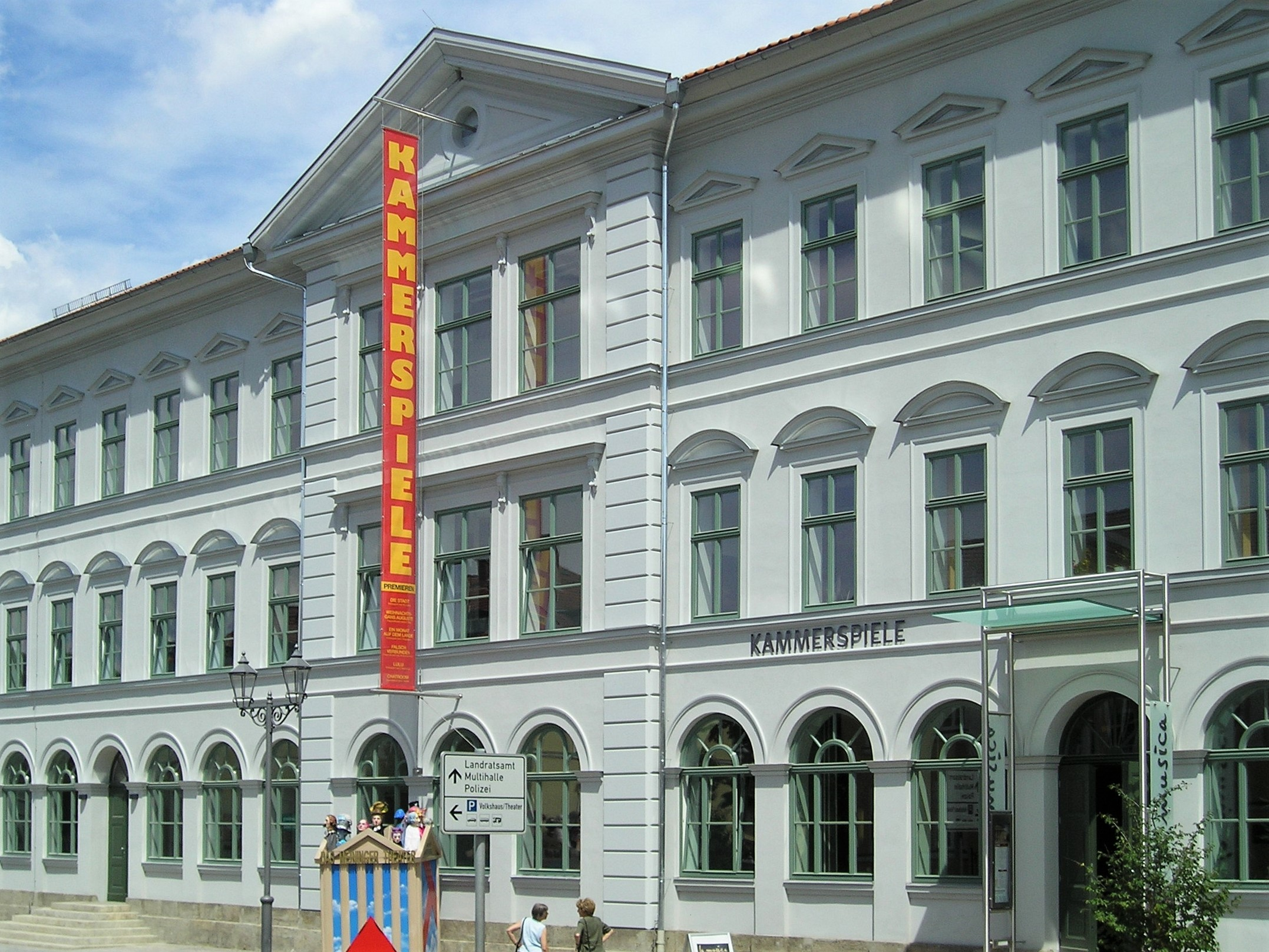 “Neue Kammerspiele” - A new theatre in the city Meiningen, Germany.